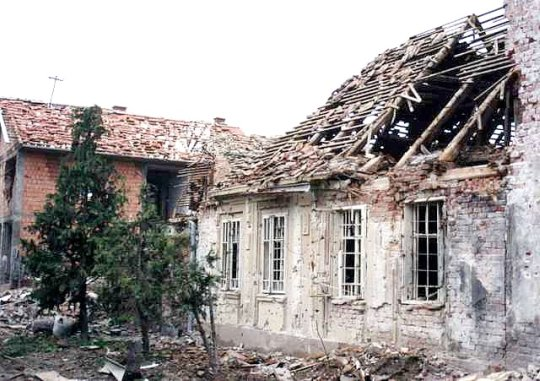 Wholesale merciless destruction in a town without pity. One of a set here